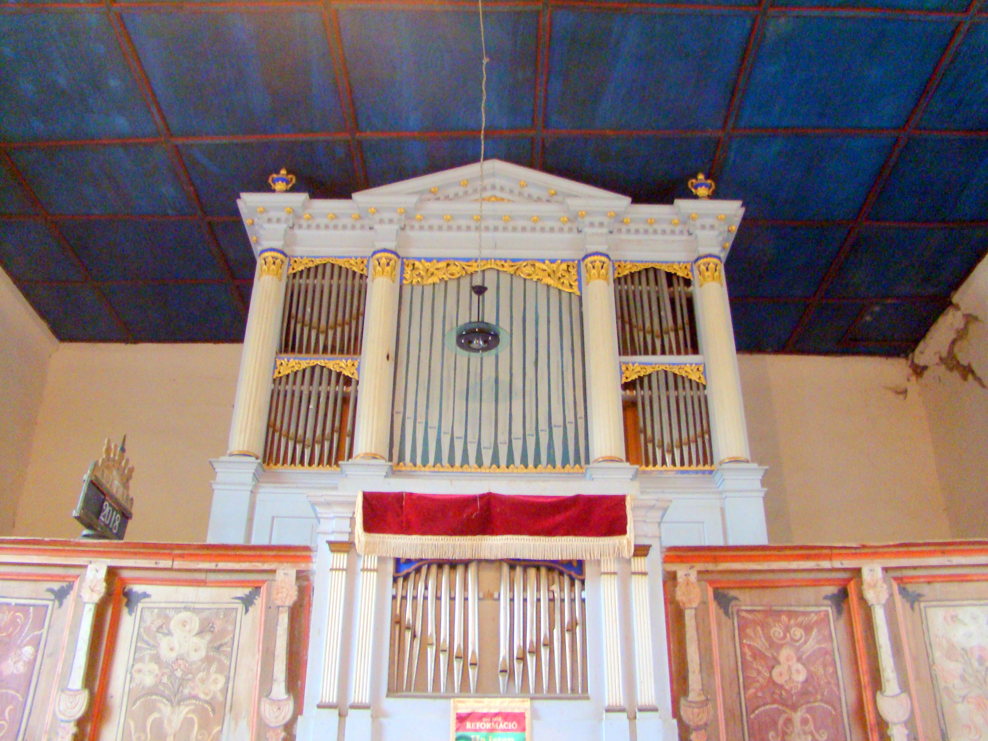 Fortified church in Cobor, Braşov County, Romania